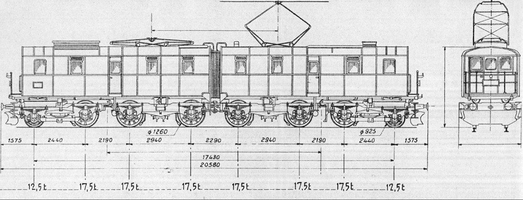 Drawing of electric locomotive PLM 262 BE, 1928, future SNCF 1ABBA1 3600